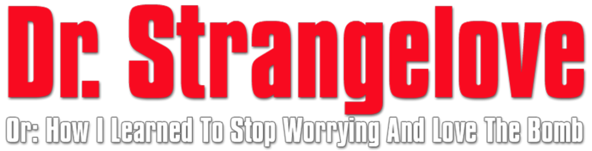 Dr. Strangelove or: How I Learned to Stop Worrying and Love the Bomb movie logo